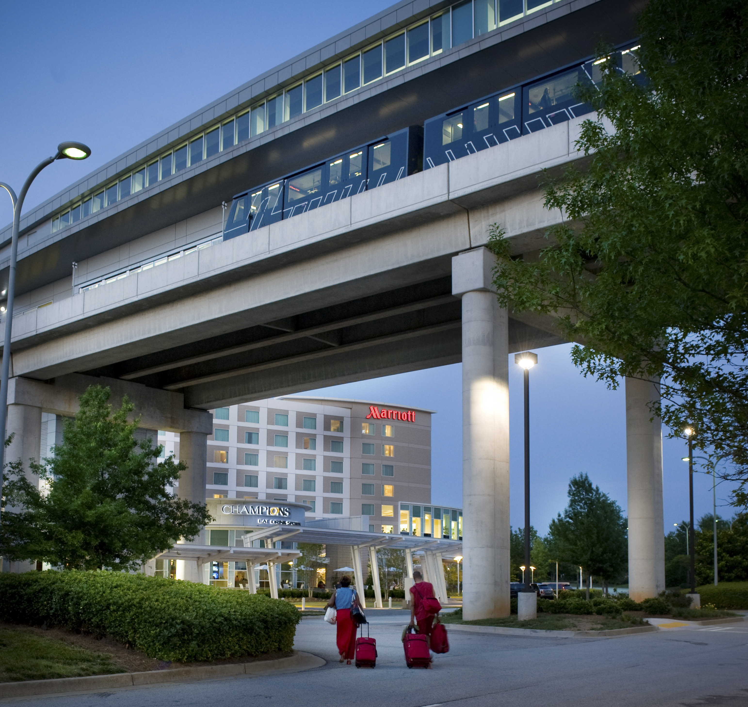 Flight attendants checking in at the Gateway Center in College Park, Ga.